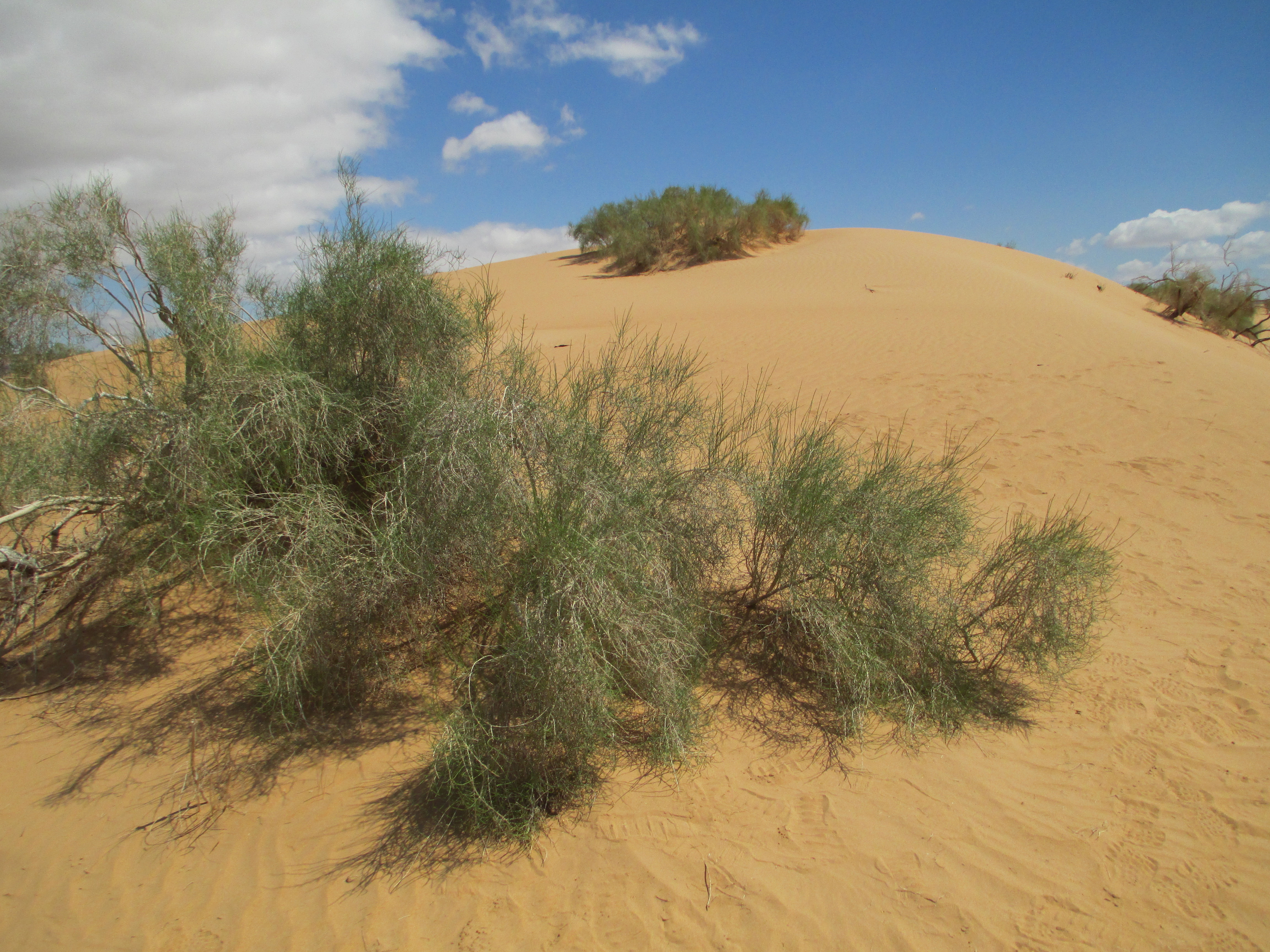 Samar sands nature reserve